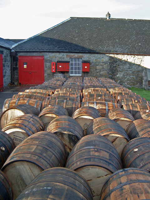 Barrels that once contained Clermont Springs Bourbon Whiskey awaiting fresh contents.